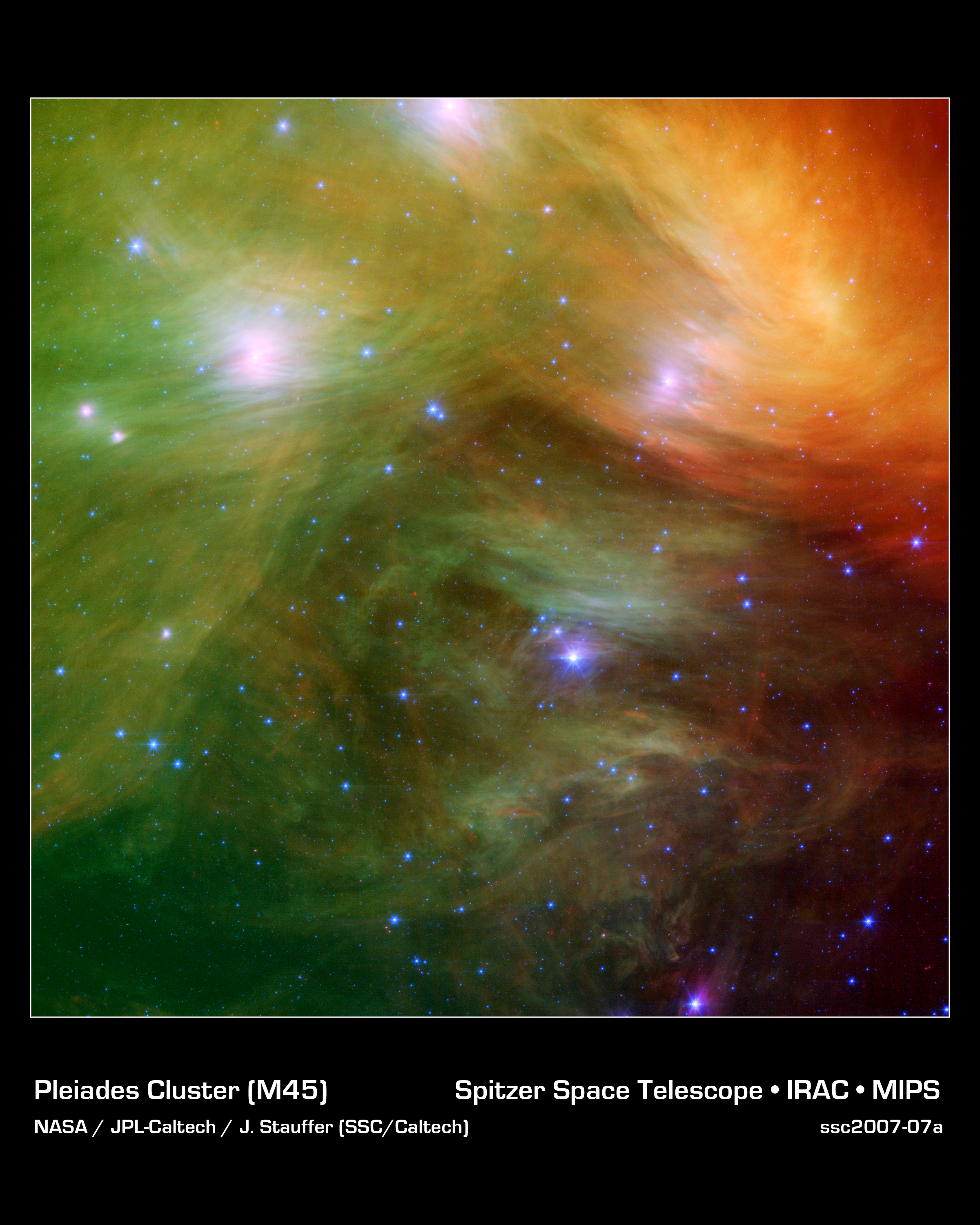 The Seven Sisters, also known as the Pleiades, seem to float on a bed of feathers in a new infrared image from NASA's Spitzer Space Telescope. Clouds of dust sweep around the stars, swaddling them in a cushiony veil. The Pleiades, located more than 400 light-years away in the Taurus constellation, are the subject of many legends and writings. Greek mythology holds that the flock of stars was transformed into celestial doves by Zeus to save them from a pursuant Orion. The 19th-century poet Alfred Lord Tennyson described them as "glittering like a swarm of fireflies tangled in a silver braid." The star cluster was born when dinosaurs still roamed the Earth, about one hundred million years ago. It is significantly younger than our 5-billion-year-old sun. The brightest members of the cluster, also the highest-mass stars, are known in Greek mythology as two parents, Atlas and Pleione, and their seven daughters, Alcyone, Electra, Maia, Merope, Taygeta, Celaeno and Asterope. There are thousands of additional lower-mass members, including many stars like our sun. Some scientists believe that our sun grew up in a crowded region like the Pleiades, before migrating to its present, more isolated home. The new infrared image from Spitzer highlights the "tangled silver braid" mentioned in the poem by Tennyson. This spider-web like network of filaments, colored yellow, green and red in this view, is made up of dust associated with the cloud through which the cluster is traveling. The densest portion of the cloud appears in yellow and red, and the more diffuse outskirts appear in green hues. One of the parent stars, Atlas, can be seen at the bottom, while six of the sisters are visible at top.